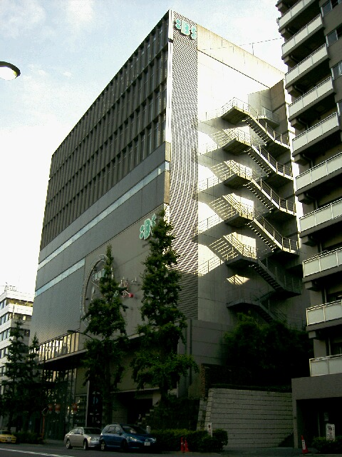 Asahi_Satellite_Broadcasting_Head_Office